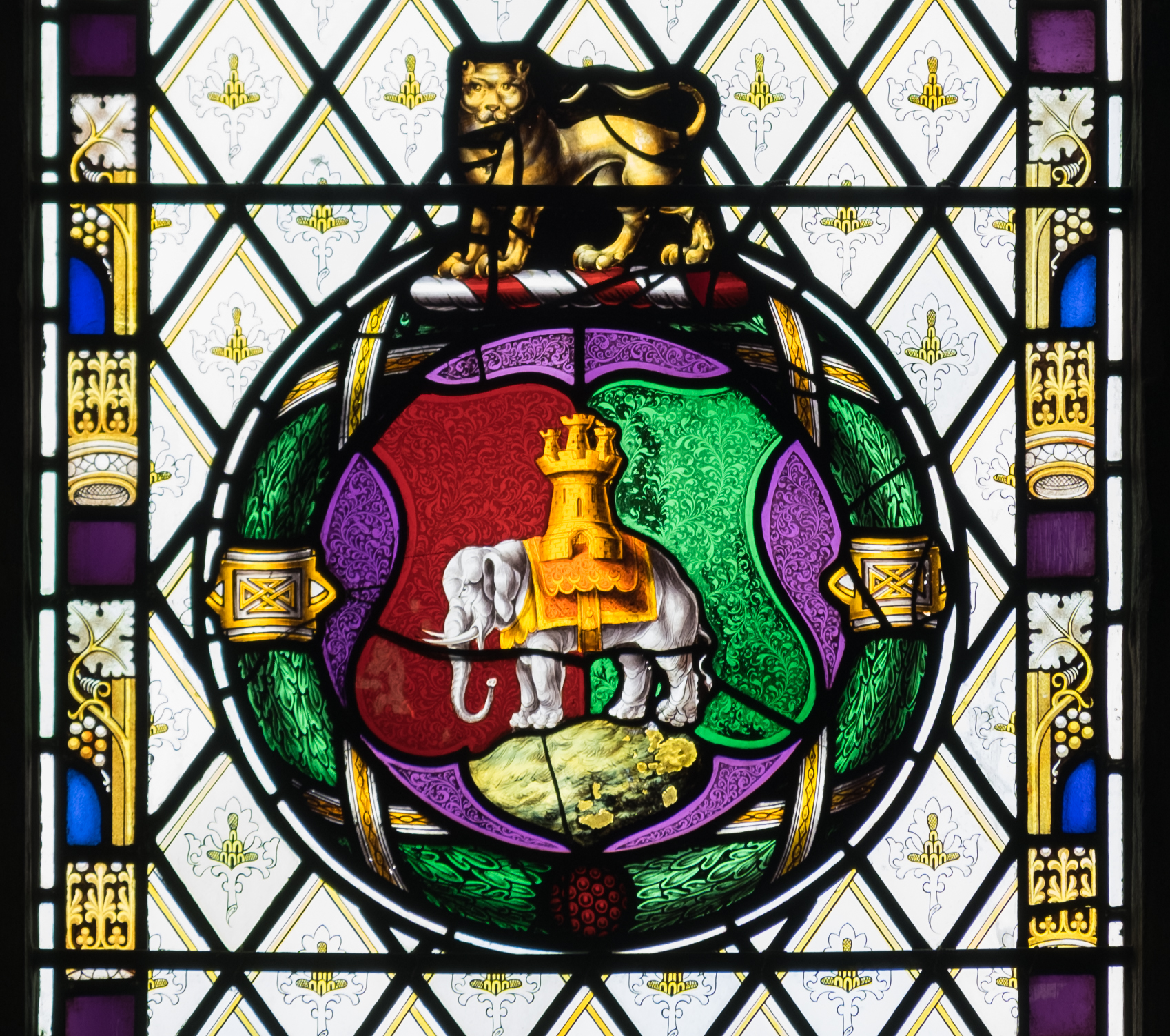 An elephant and castle and a cat-a-mountain in the coat of arms of Coventry in a stained glass window in Holy Trinity Church, Coventry